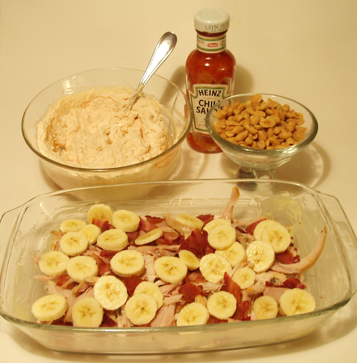 Food Flying Jacob